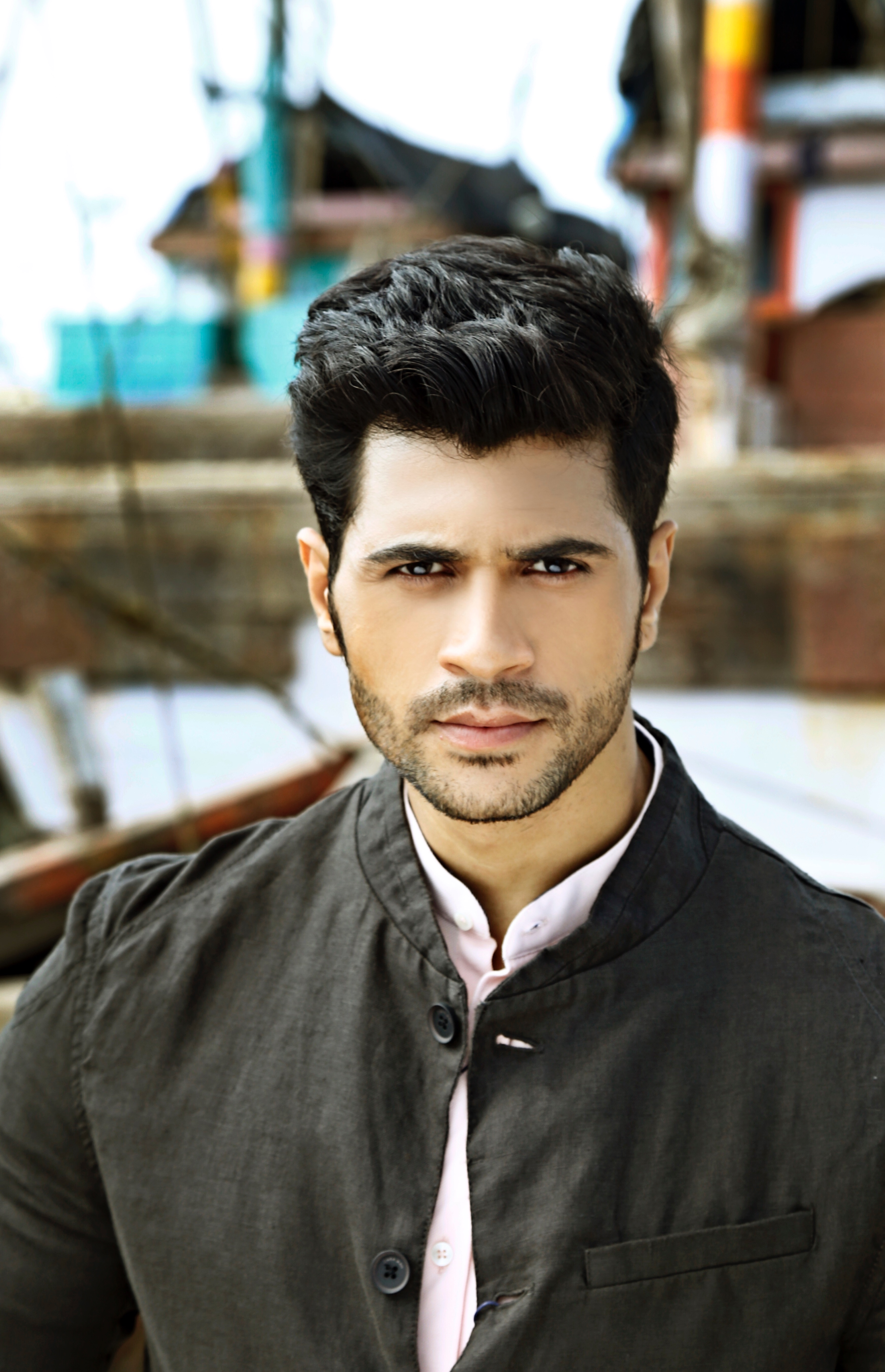 Zeeshan Amhed Khan in Mumbai